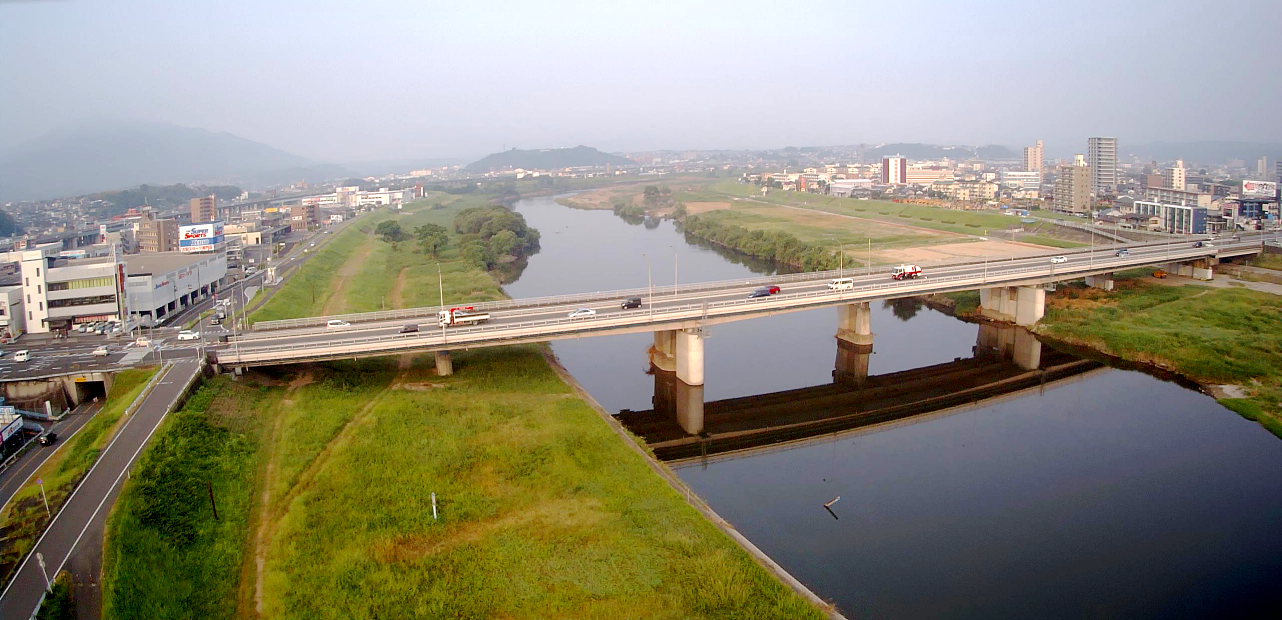 Funai Bridge (Funai ōhashi)